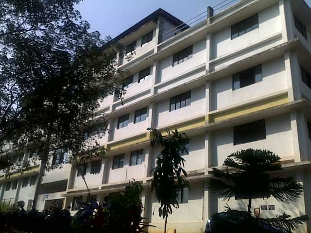 Paraclinical Block at the SUTAMS campus.